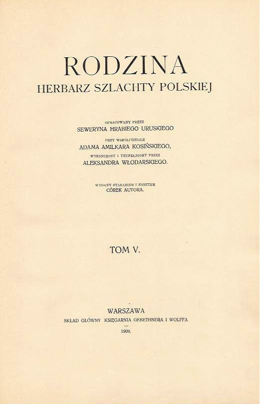 Seweryn Uruski/ Herbarz szlachty polskie. t.5